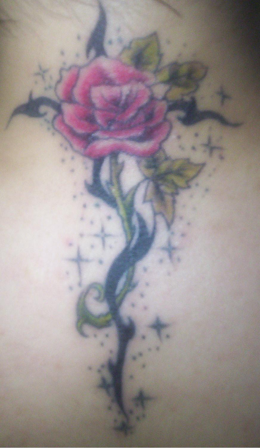 Neck tattoo of a rose and a cross